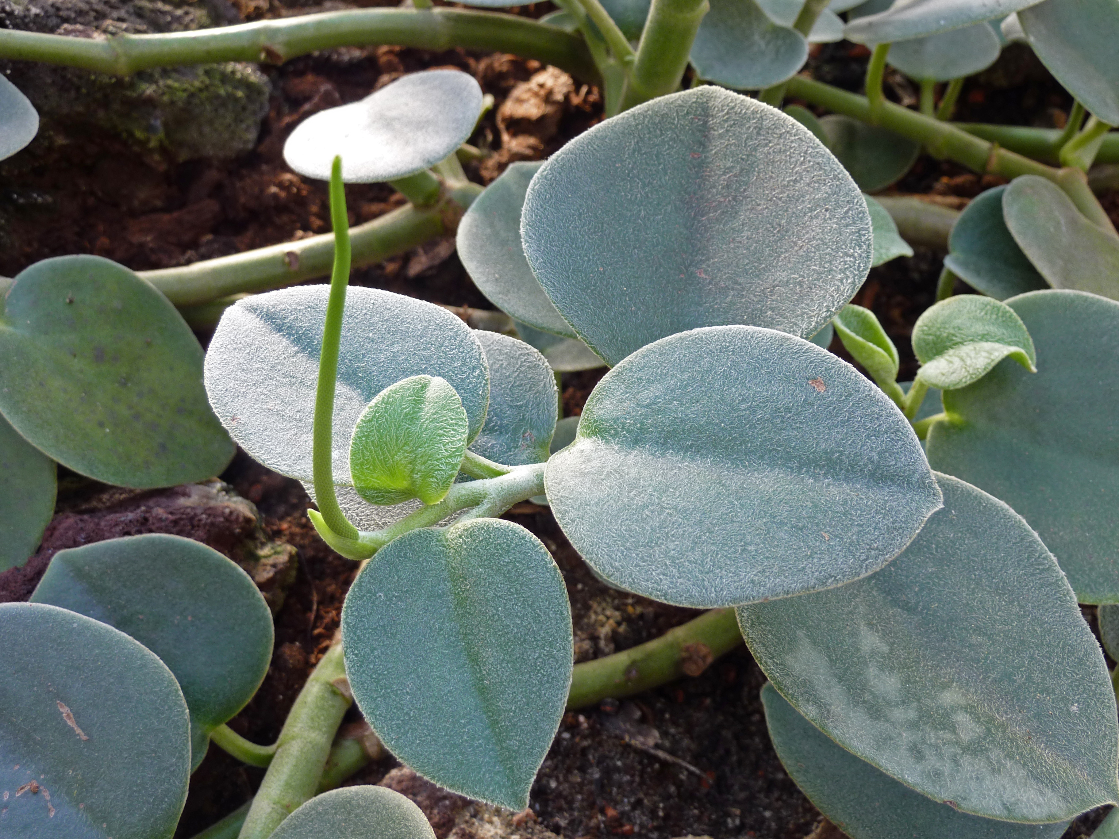 Peperomia incana in the Botanical Garden, Berlin.